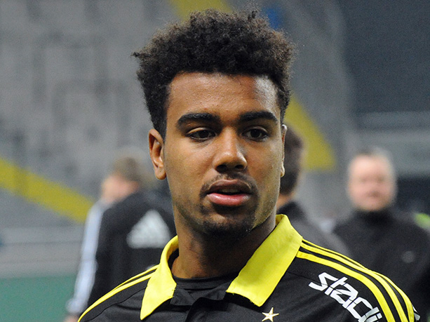 Noah Sonko Sundberg